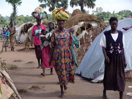 Original caption states "New arrivals at the Lira camp for internally displaced persons." Uganda.